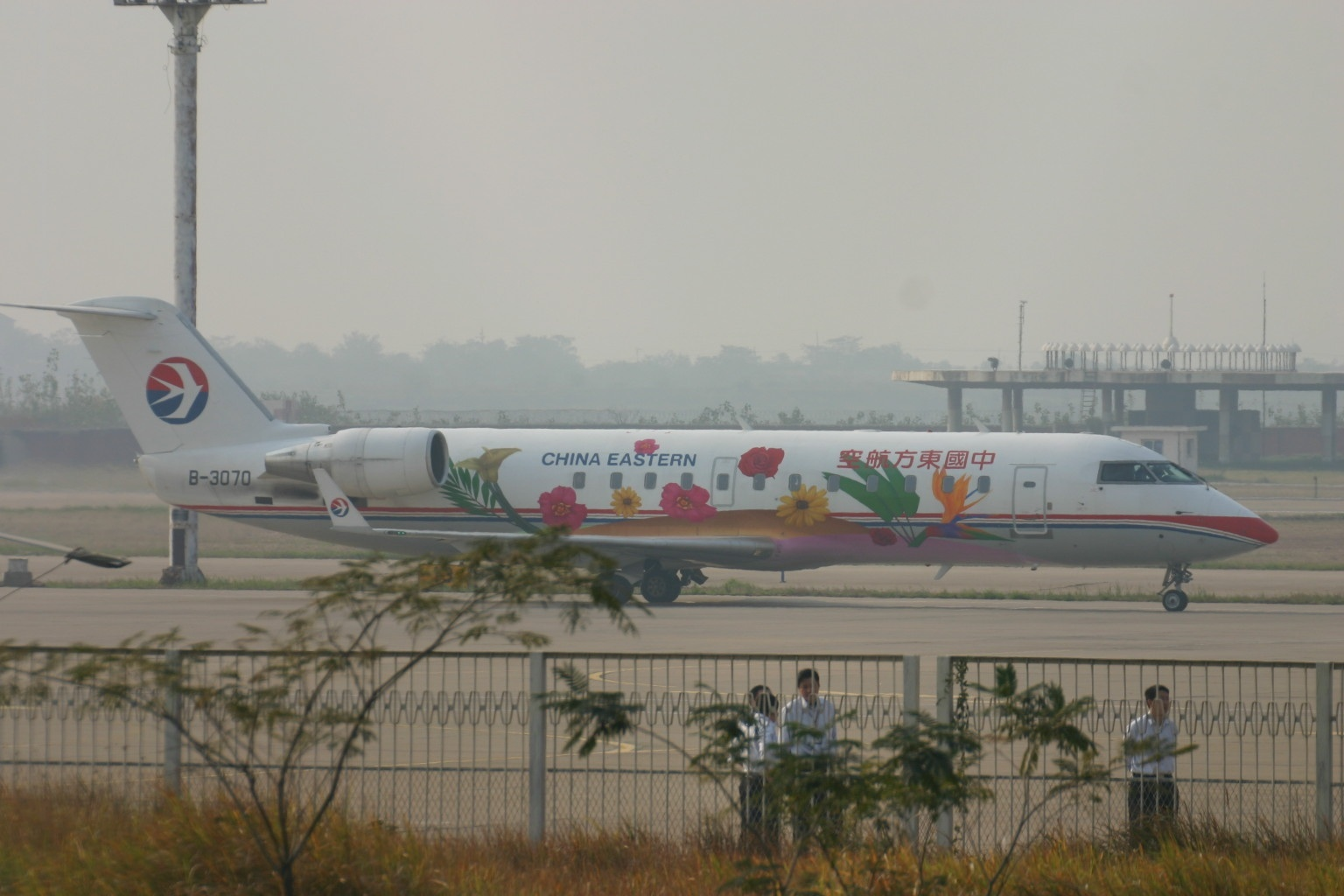 At Wuhan